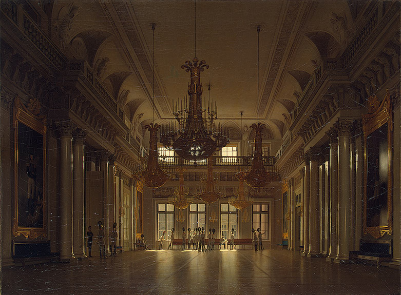 Interiors of the Winter Palace. The Fieldmarshals' Hall (1836).